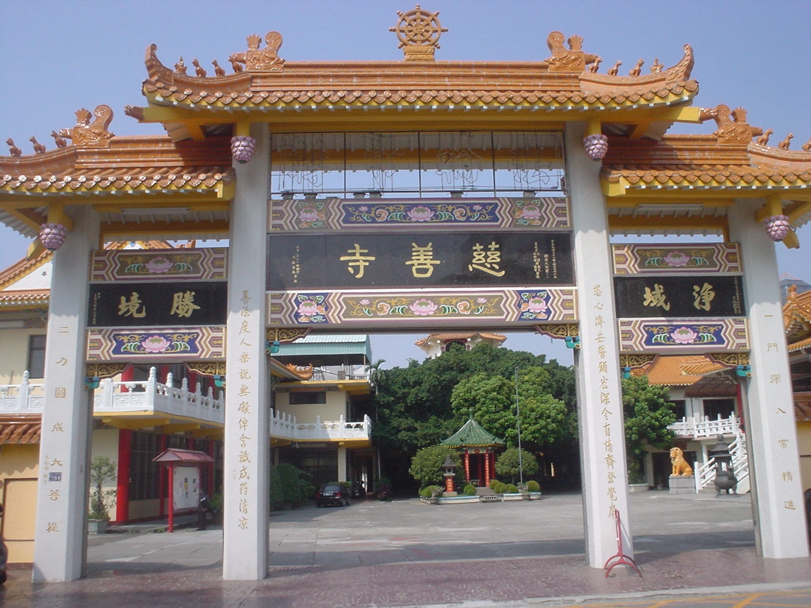 Gate of the Tzu-shan Buddhist Temple in Taichung, Taiwan. Photo taken on October 24, 2006.